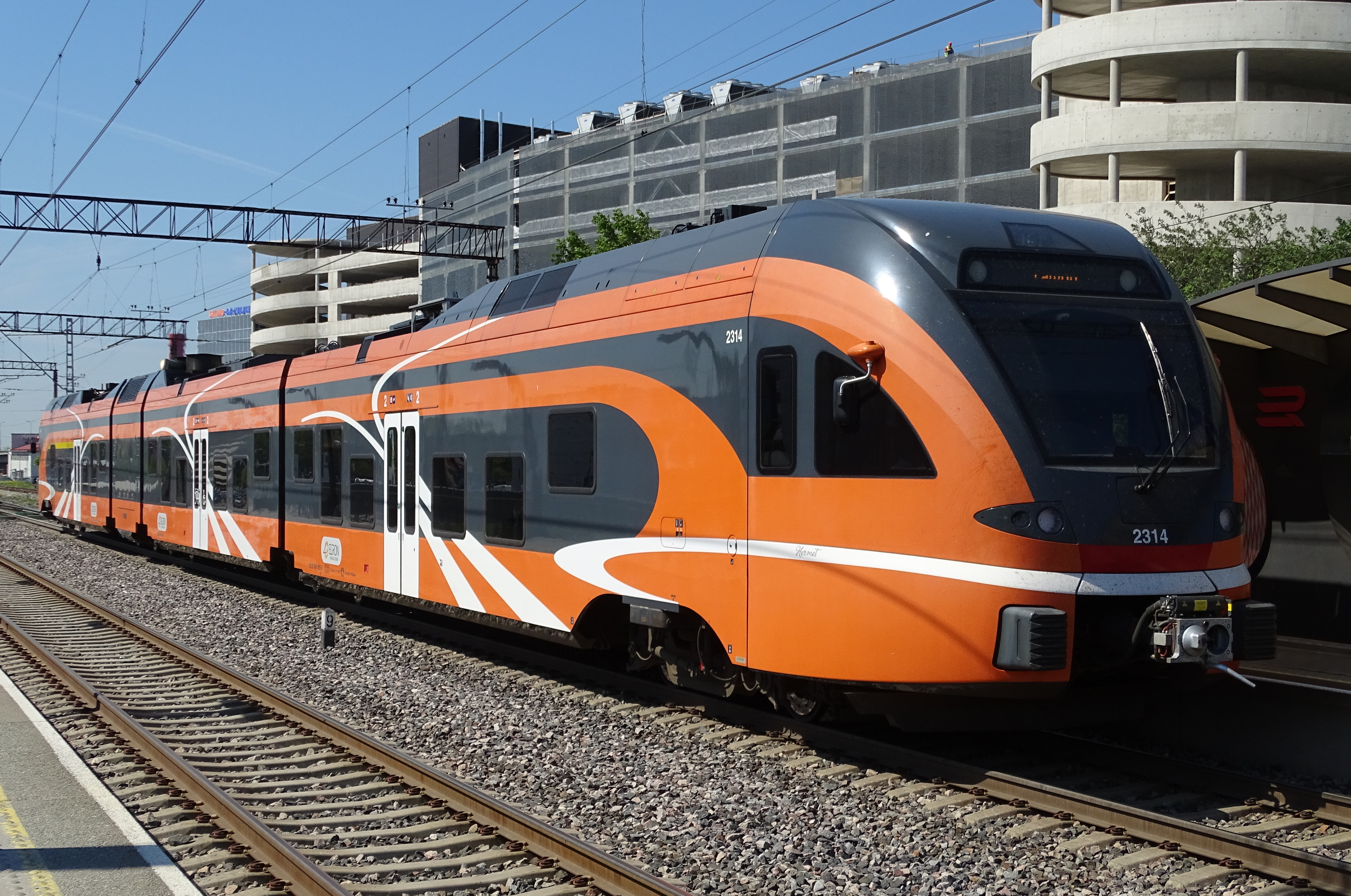 Elron Stadler FLIRT DMU 2314 in Ülemiste station, Estonia.